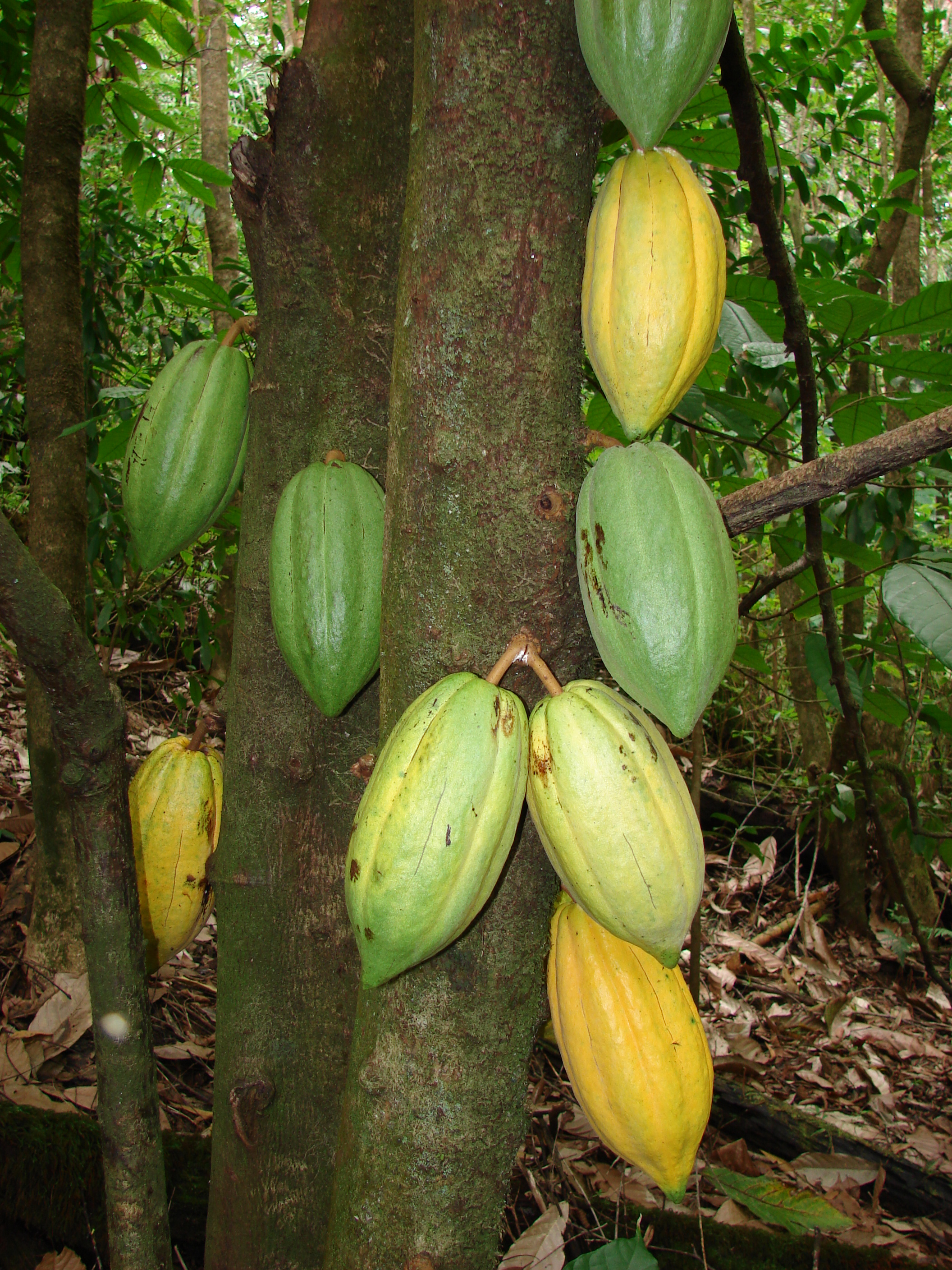 Theobroma cacao (fruit). Location: Maui, Hana Hwy